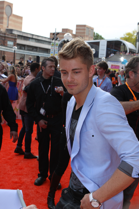 Actor Luke Mitchell at the Nickelodeon Kid's Choice Awards 2011 in Australia